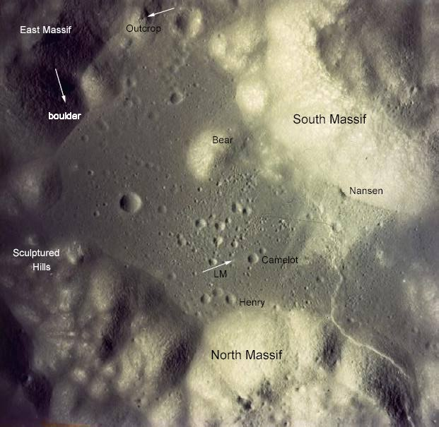 Aerial photo of the Taurus-Littrow valley taken during Apollo 17.